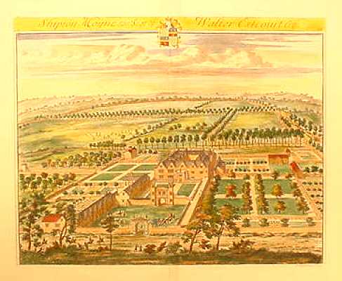 Copper engraving, 'Shipton Moyne, the Seat of Walter Estcourt Esq.', from Britannia Illustrata, or Views of Several of the Queens Palaces also of the Principal Seats of the Nobility and Gentry of Great Britain (London, 1709)